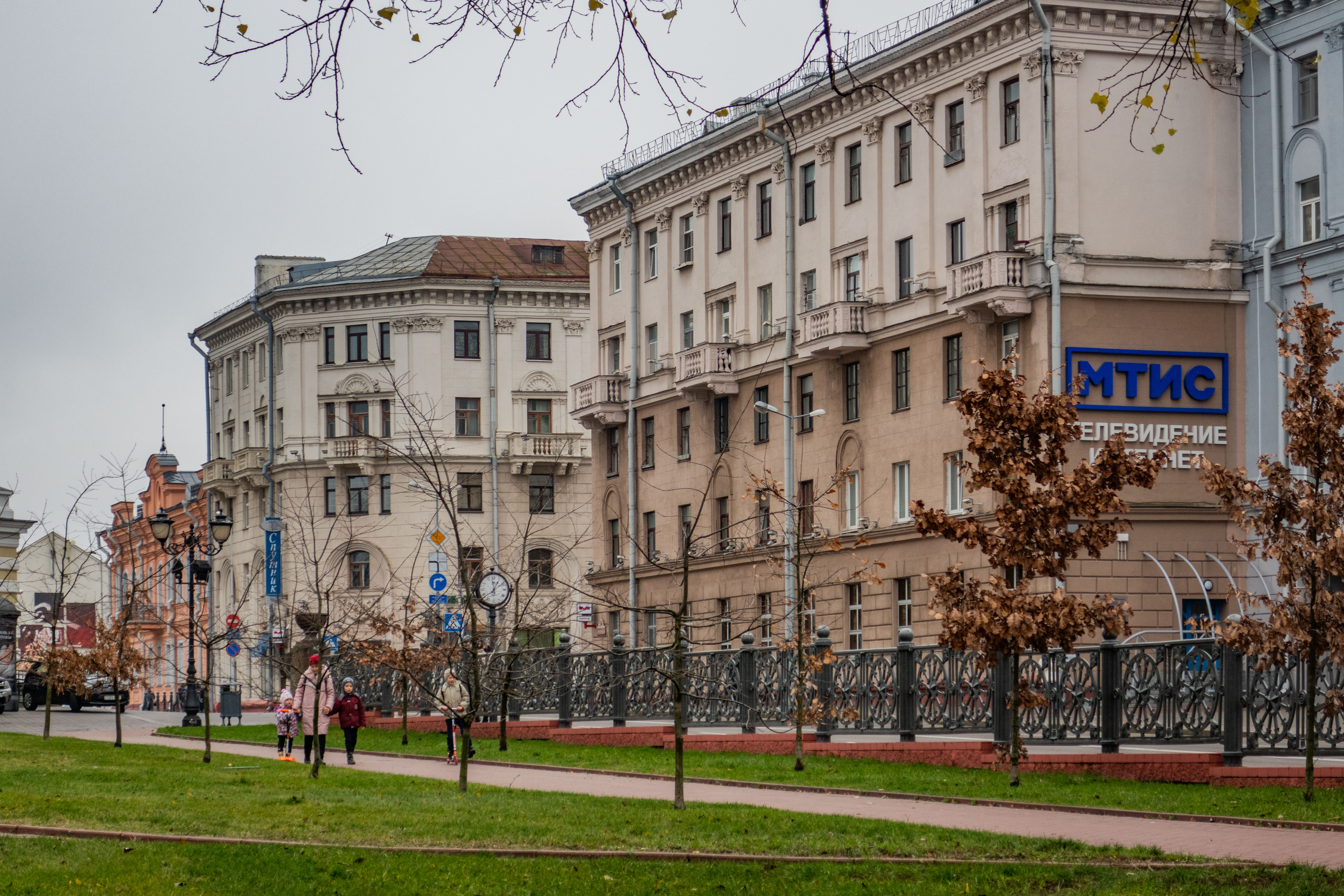 Enhieĺsa street. Minsk, Belarus